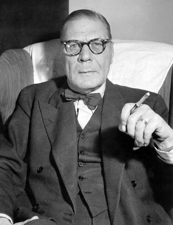 Press photo of Gustaf Hellström.